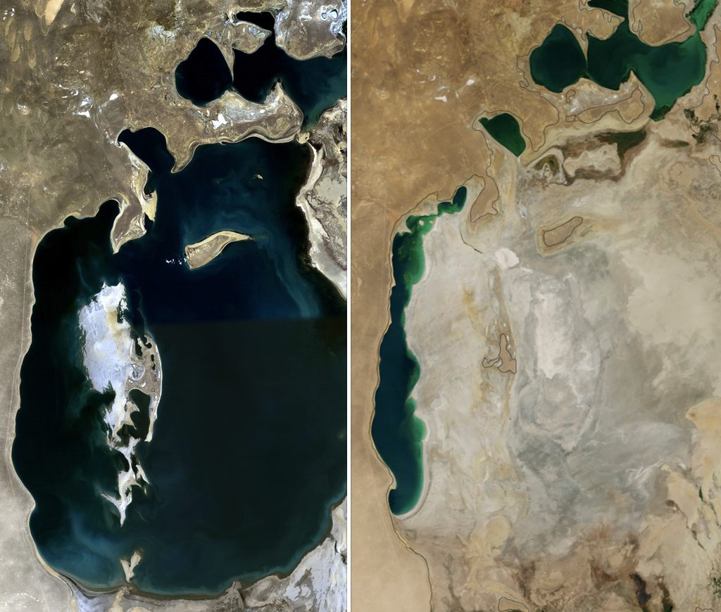 A comparison of the Aral Sea in 1989 (left) and 2014 (right).